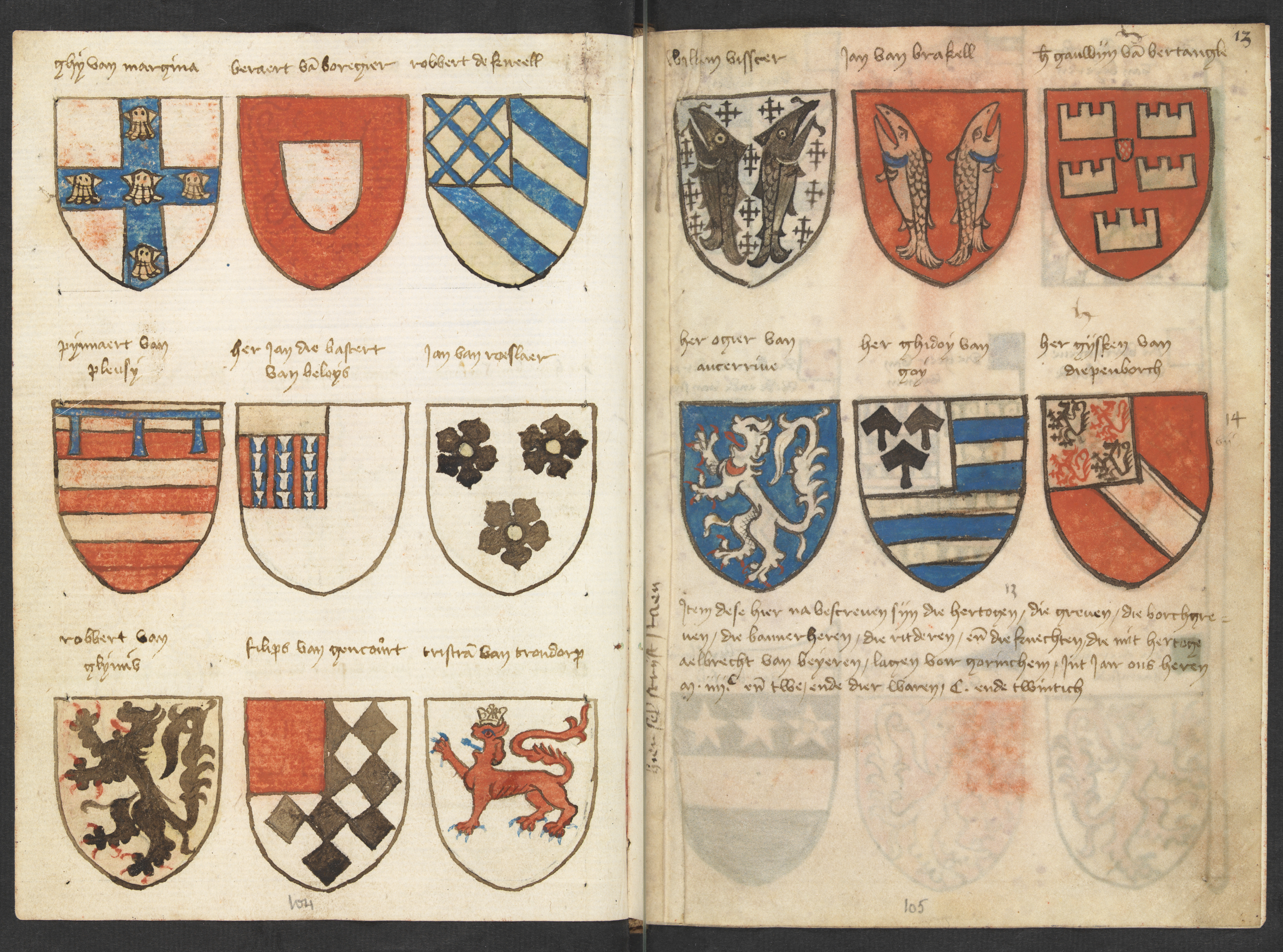 Lefthand side folio 012v; righthand side folio 013r from the Beyeren armorial / Wapenboek Beyeren